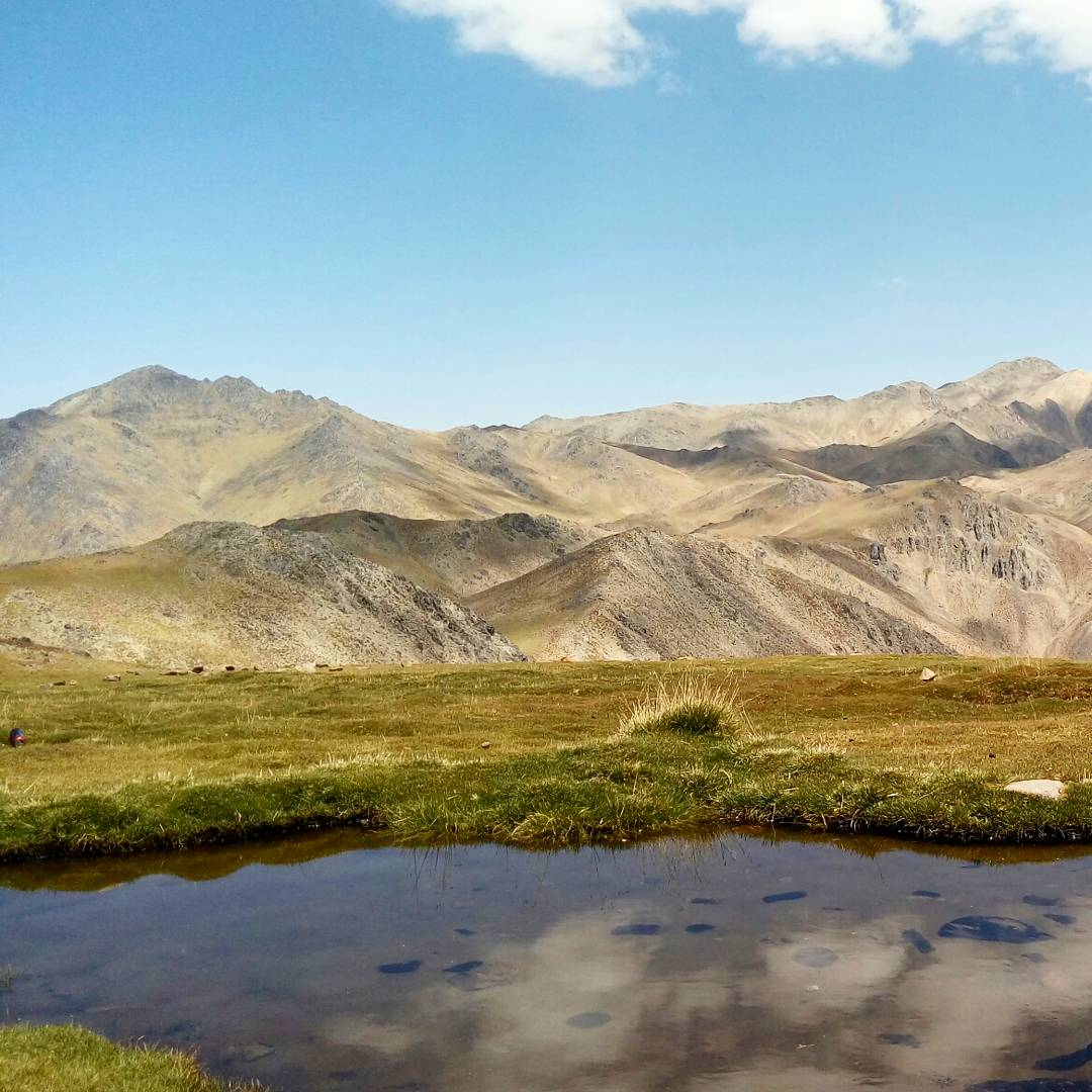 چمنزار جوچار در کوه شاه ارتفاع چهارهزار متری